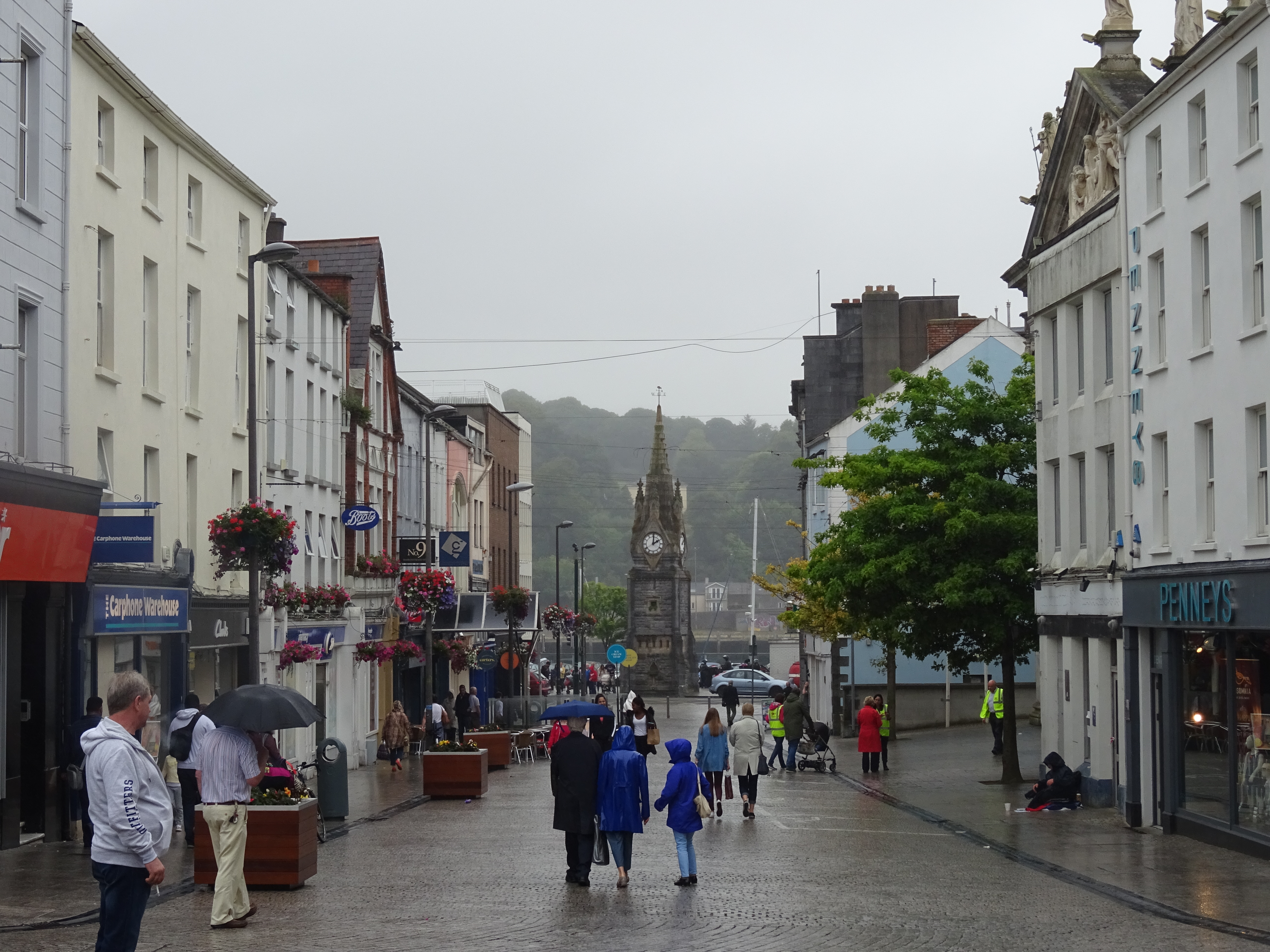 Barronstrand Street in Waterford, Ireland, with a clock tower.